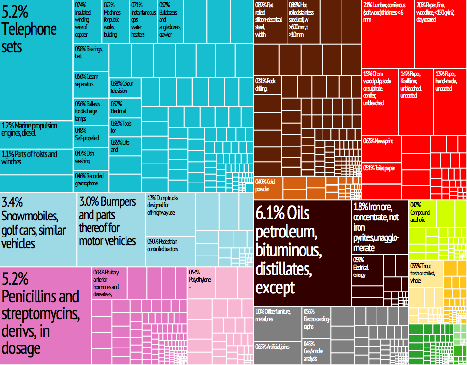 Sweden Export Treemap from MIT Harvard Economic Complexity Observatory